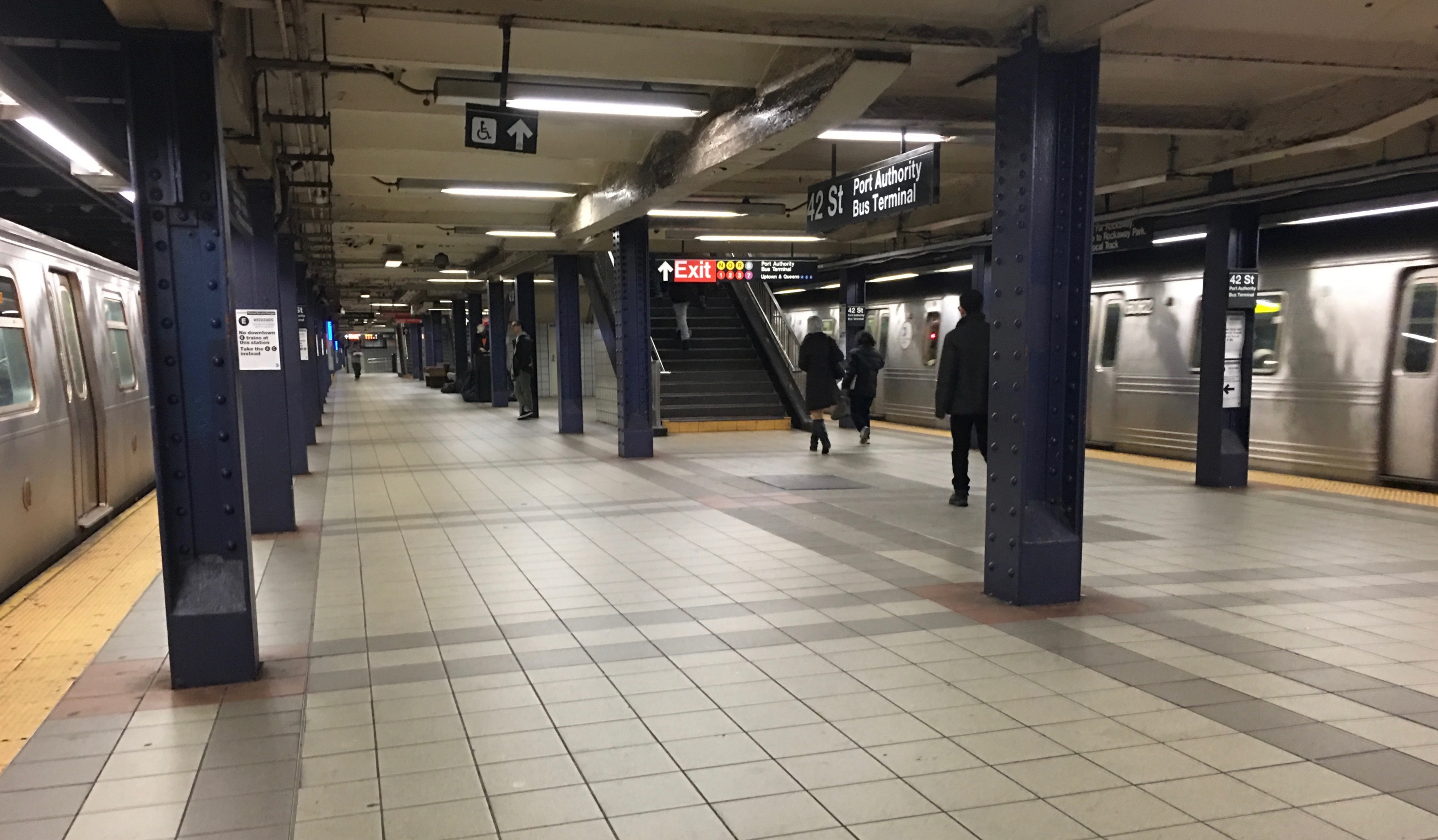 Downtown platform at 42nd Street - PABT on the A/C/E.